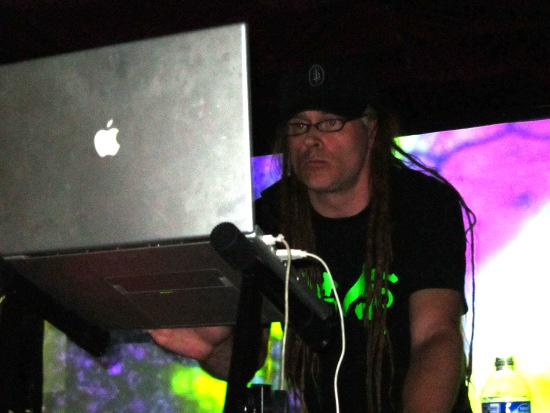 cEvin Key at the Larimer Lounge